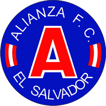 Alianza Fútbol Club El Salvador Logo